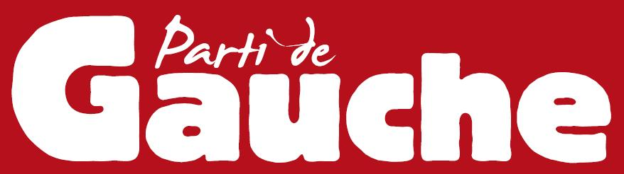 Old logo of French Parti de Gauche